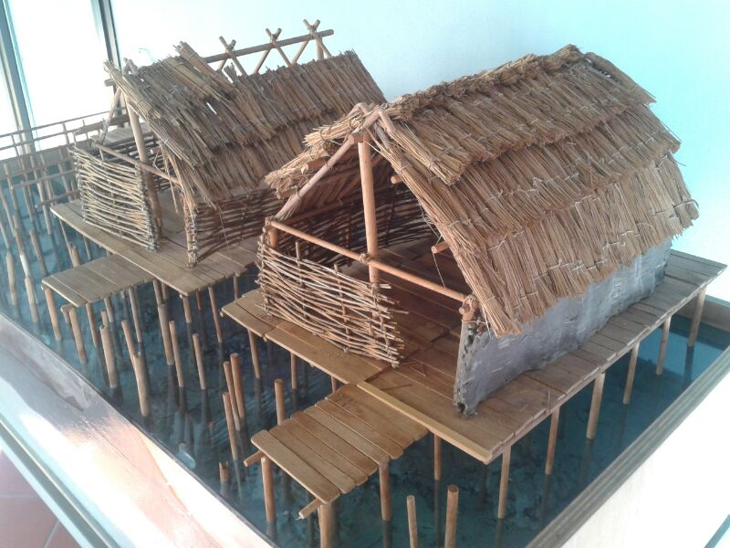 Modello di palafitta preistorica_3: Museo G. Rambotti